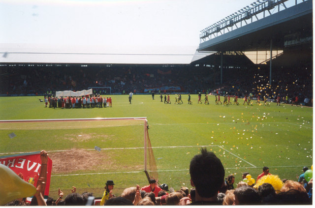 The Kop - Last Game as a Standing Terrace, 3 km from Liverpool, Great Britain. Liverpool v. Norwich City